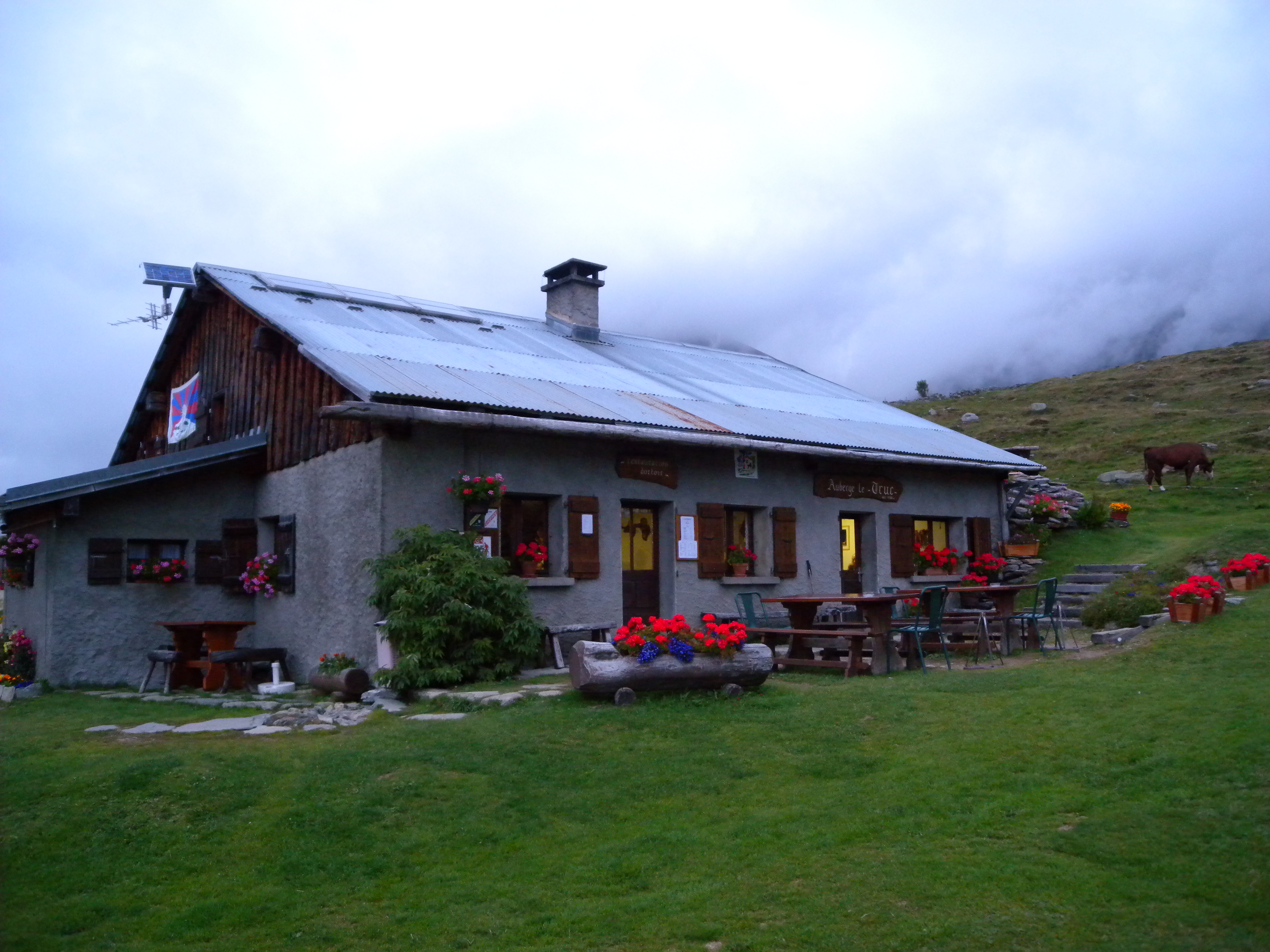 The alpine hut "Le Truc", also altitude farm on "alpage", on the Tour du Mont Blanc.